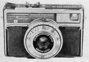 Voigtländer analogic camera: Vitessa 500 AE (1968)